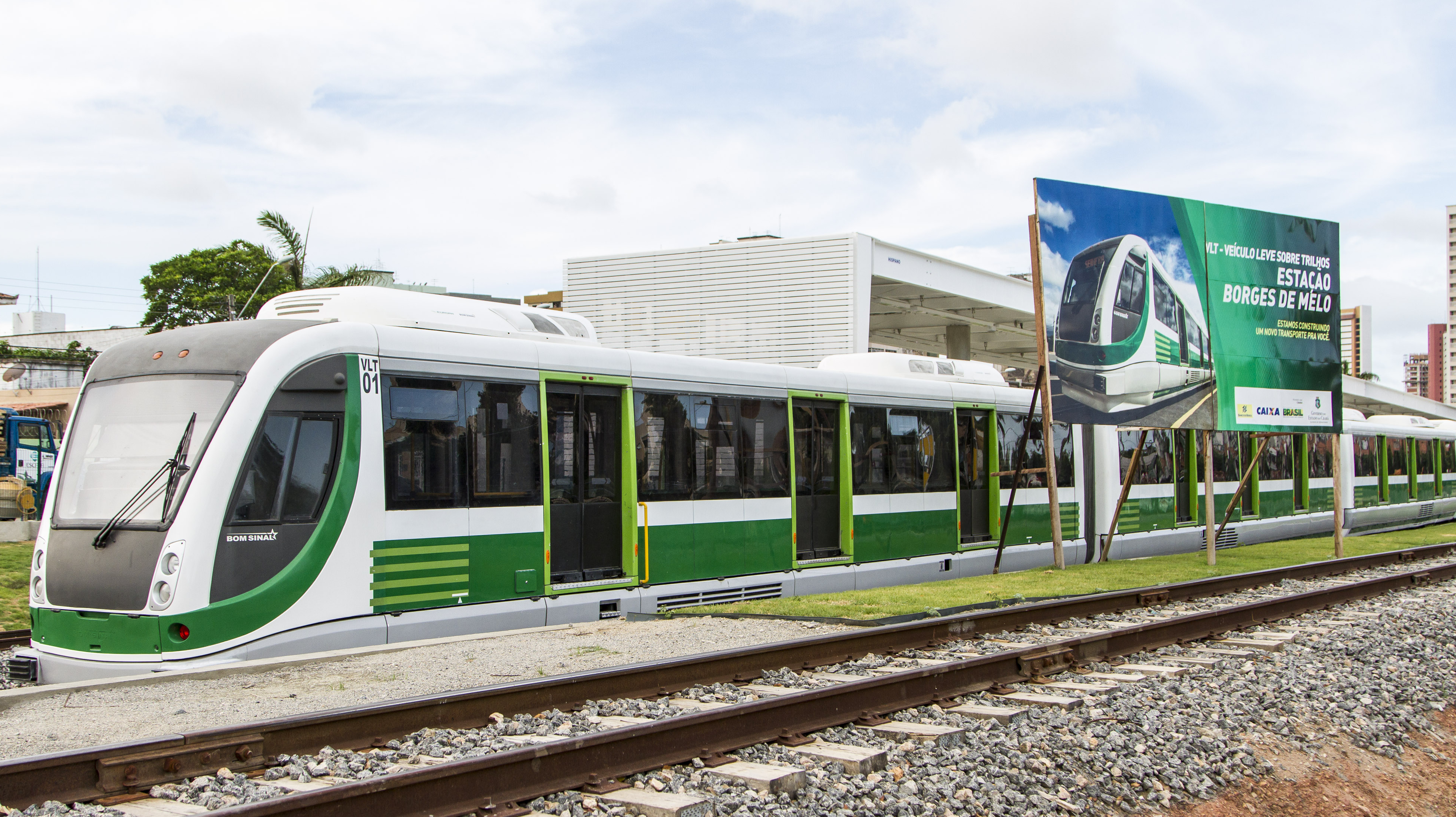 Example of railed vehicle used in Fortaleza, Brazil.